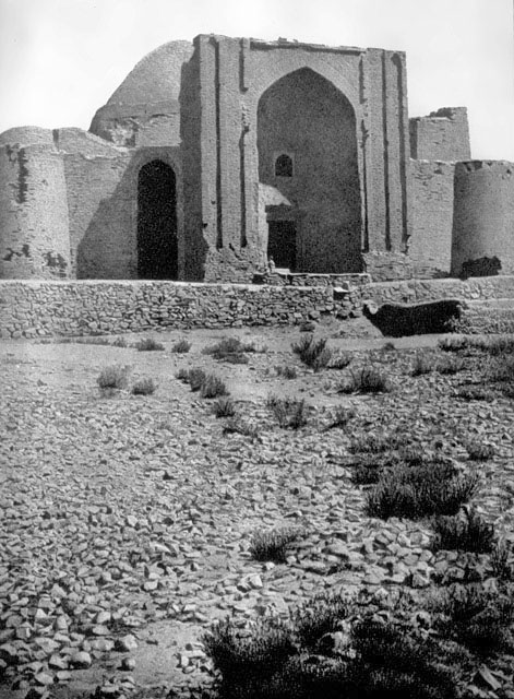 An exterior view of the Mausoleum of Ulugh Beg Mirza (Maqbara-i Ulugh Beg bin Abu Sa'id) in Ghazni, also known as the Abdur Razaq Mausoleum, circa 1924. The photograph was taken from the south, providing a view of the southwestern iwan.